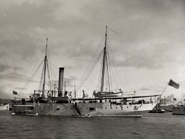 Title: U.S.S. Wheeling Creator: Brother Bertram Subjects: Honolulu ; Honolulu Harbor ; Ships Island: Oahu Location: Honolulu, HI